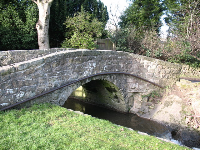 Cockhill packhorse bridge, Hampsthwaite, North Yorkshire